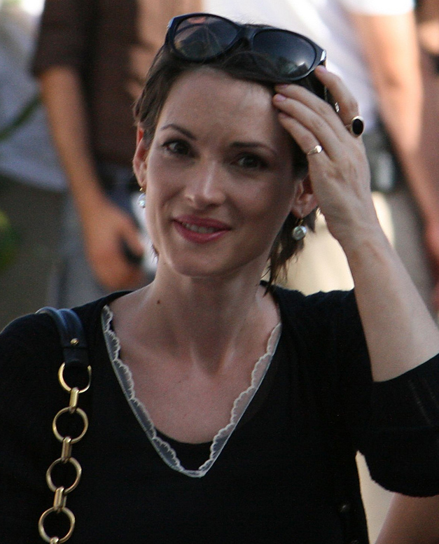 Winona Ryder in Italy in July 2009.